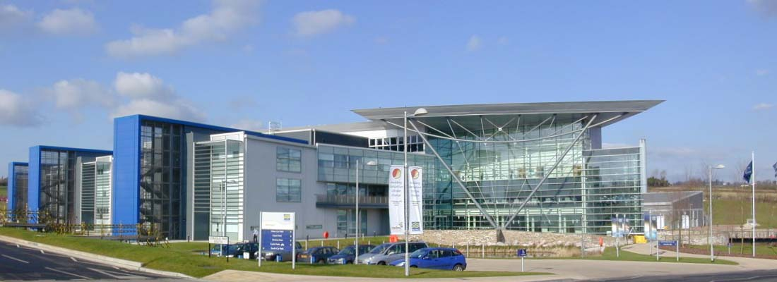 Panorama of the new UKMO building in Exeter, taken 2005/02/08 by William M. Connolley with a nikon coolpix 950. 5 individual shots have been glued together. Note: the building is technically MOD property and as such photography is not officially permitted. I was approached, politely, by security after taking the pictures and invited to explain myself; eventually a higher-level official decided that my pics of the outside were OK.